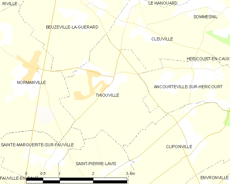 Map of French municipality Thiouville